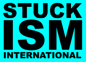 Logo from the Stuckism International web site